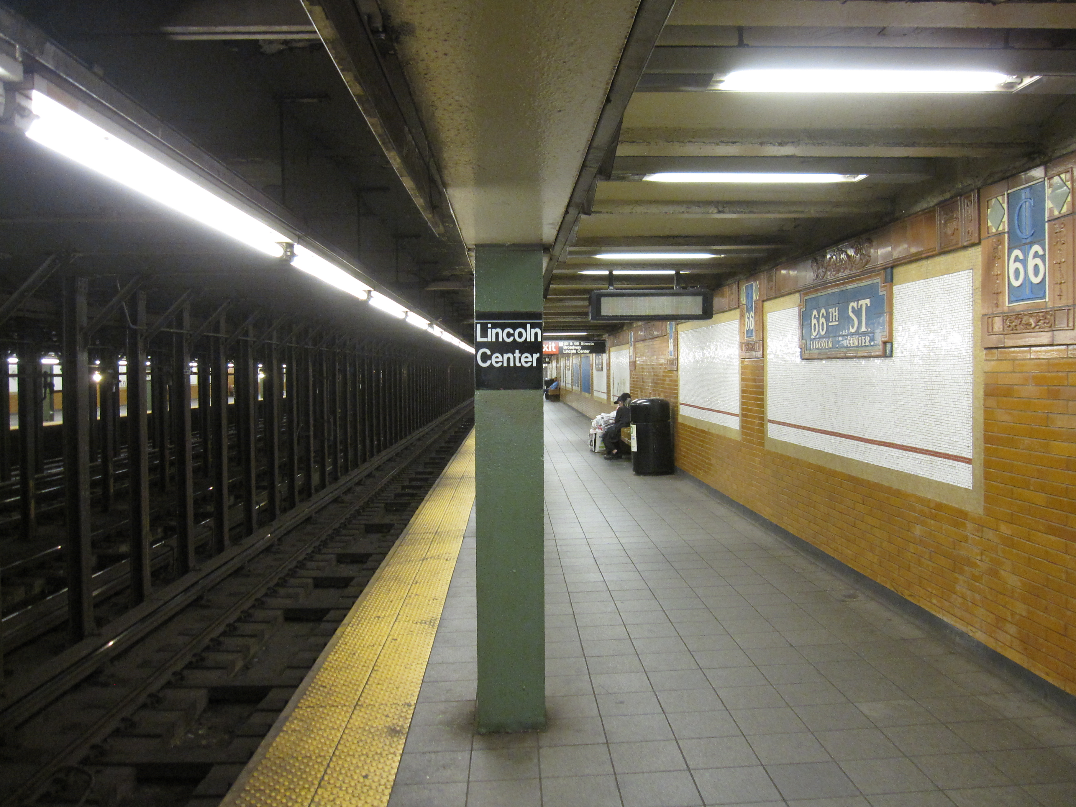 66th Street – Lincoln Center (IRT Broadway – Seventh Avenue Line)